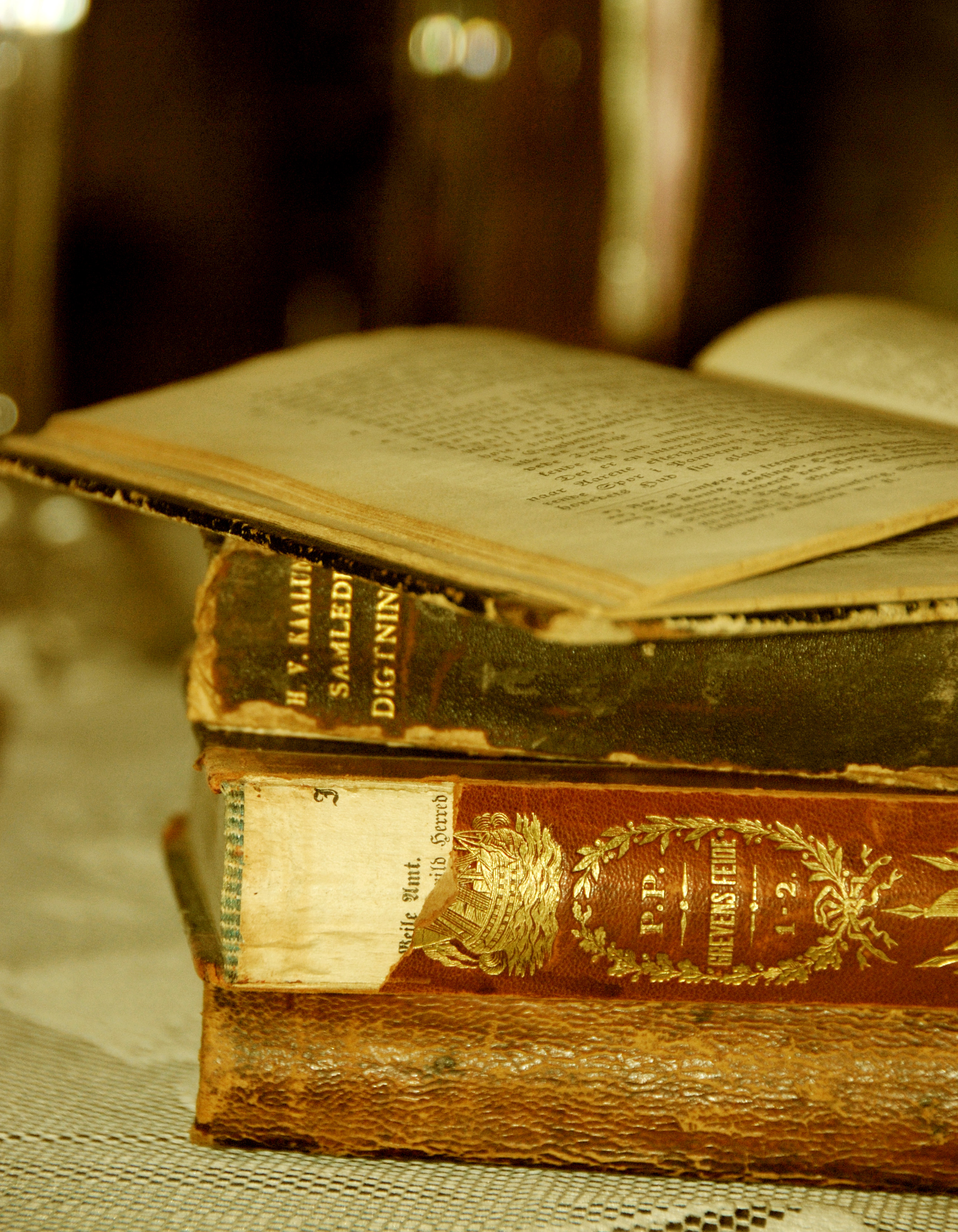 some old books i found in the guest room. =]